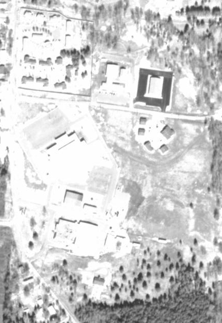 Aerial image of Ozarka College in Arkansas